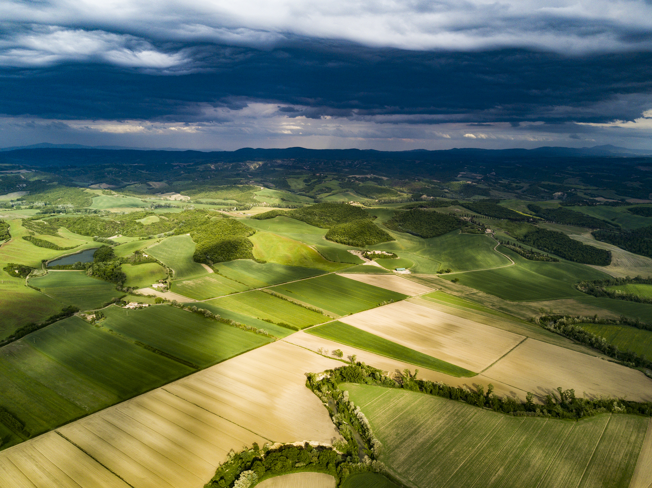 Toscana, Italia